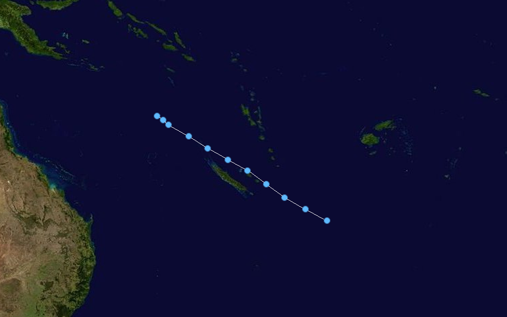 Tropical Depression 15F (2007) track map. Saffir-Simpson Hurricane ScaleTDTS12345